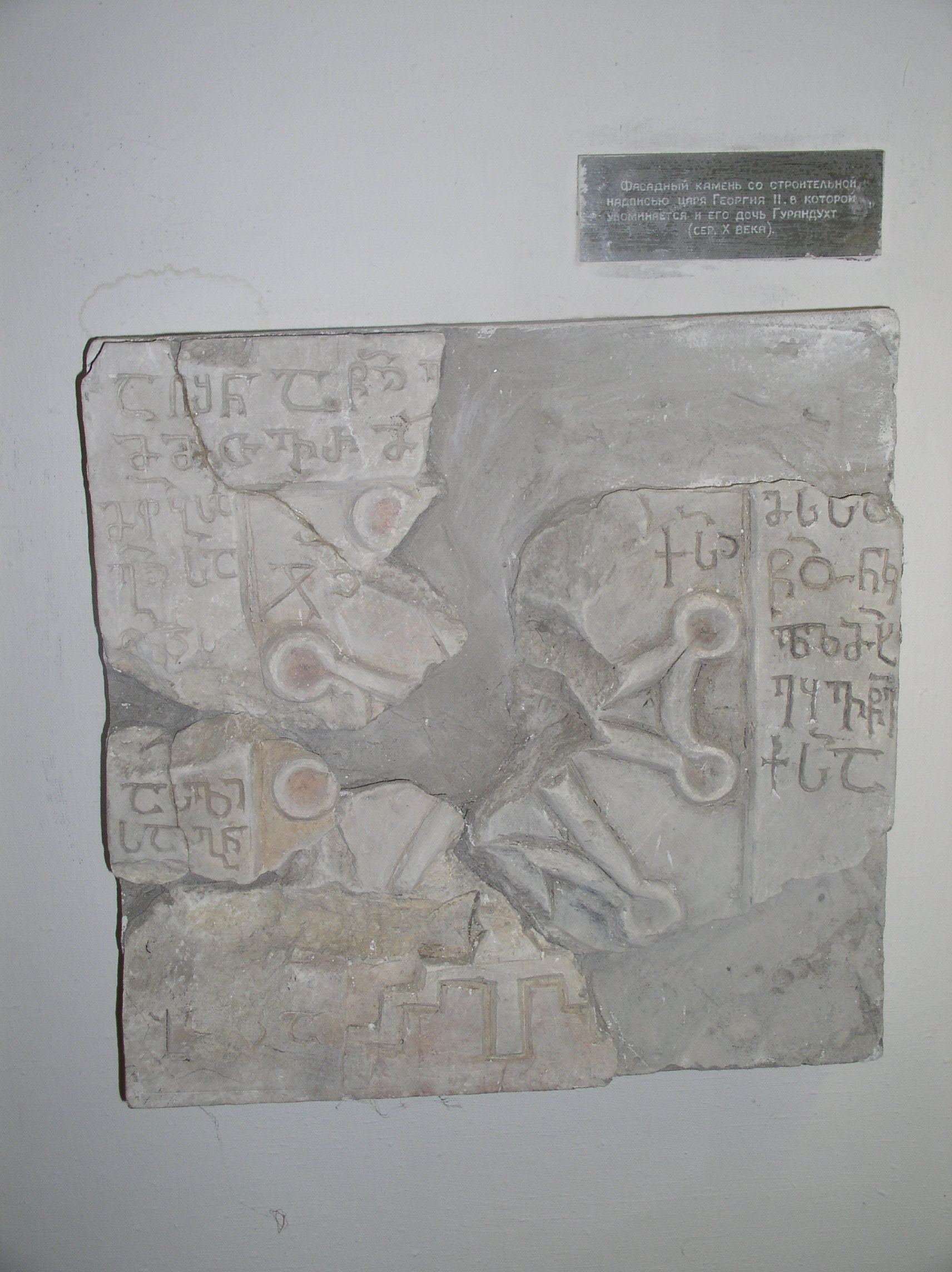 Façade stone with the inscription mentioning George II of Abkhazia and his daughter Gurandukht. Sukhum Museum, Abkhazia.